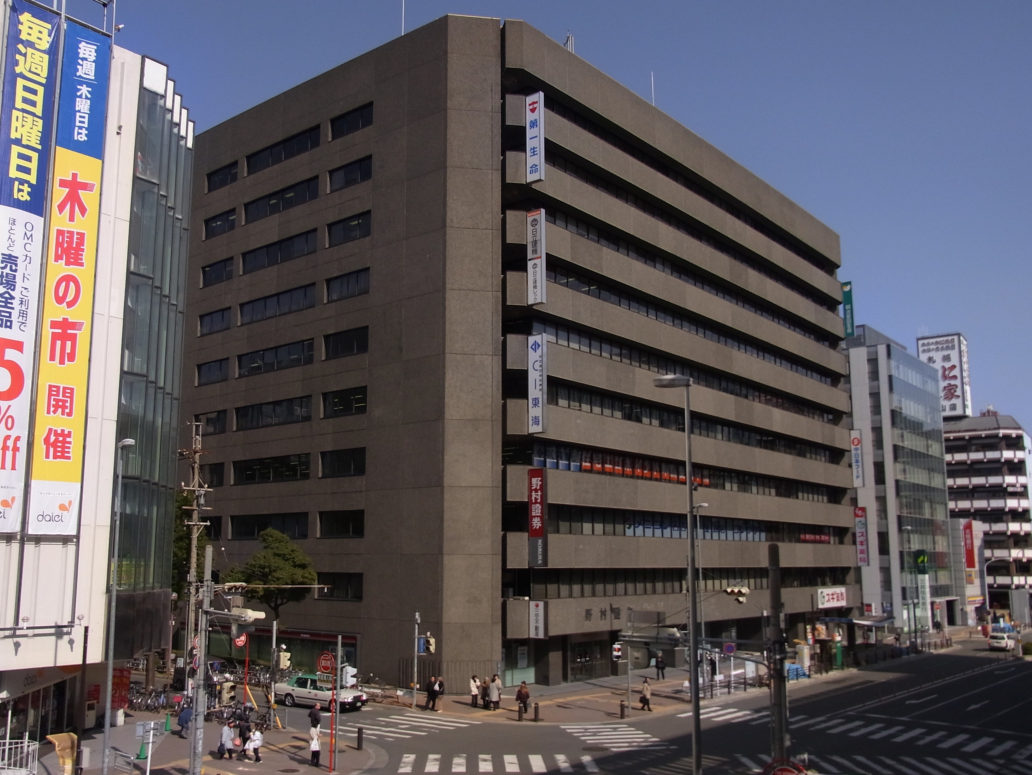 Kanayama Sogo Building in Naka-ku ward, Nagoya.